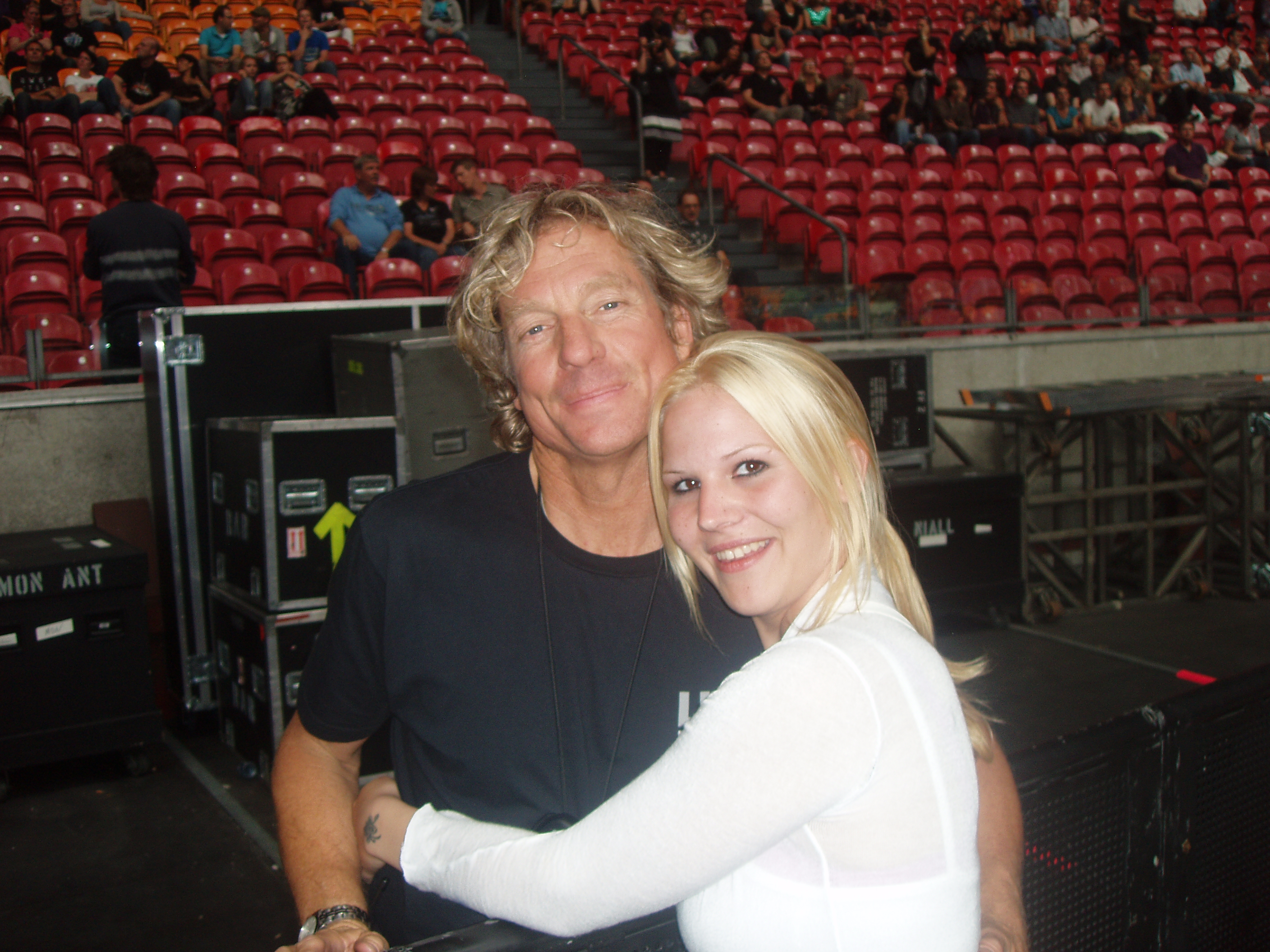 Dallas Schoo at Amsterdam Arena U2 July 20